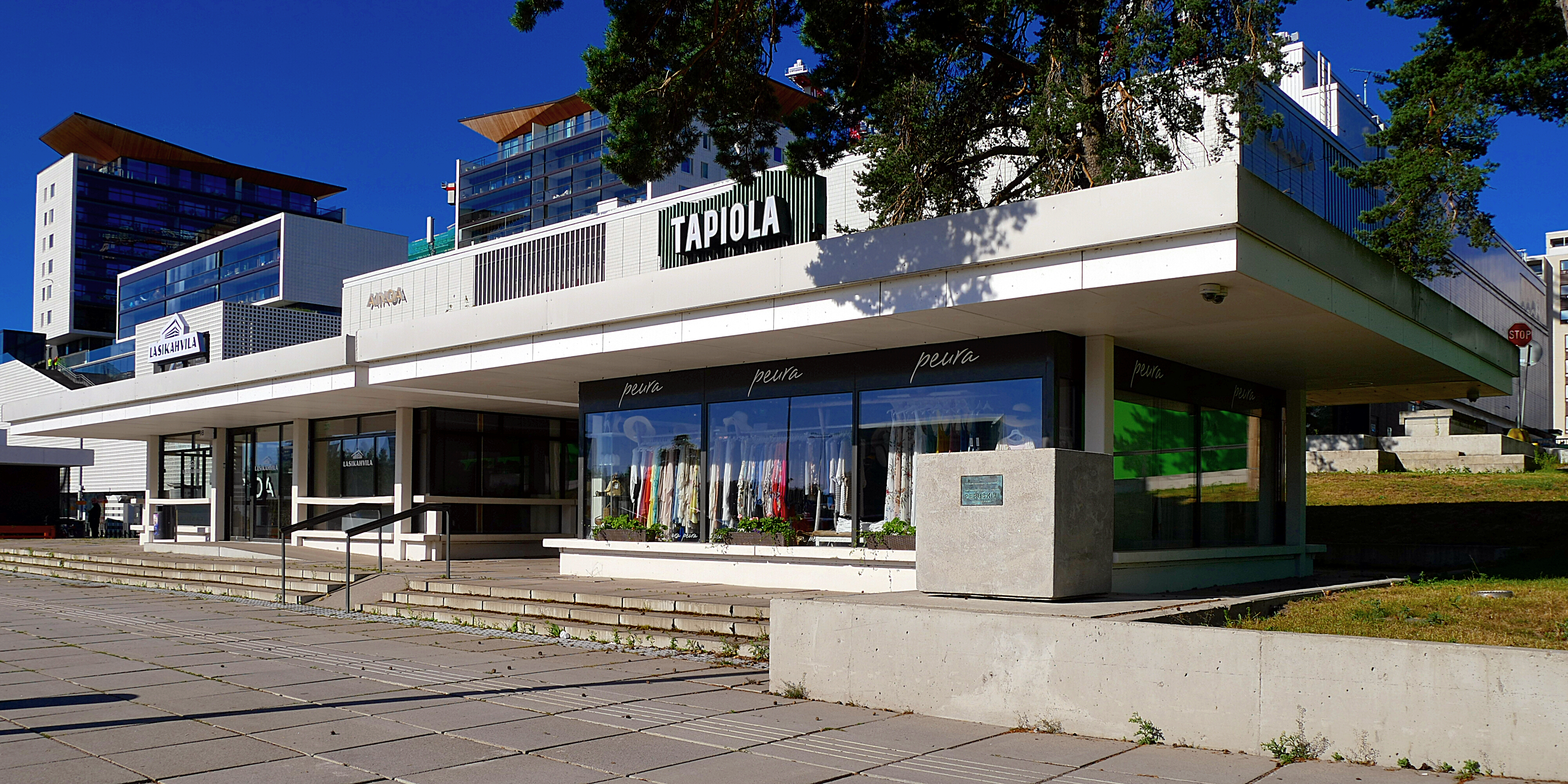 The purely lined building with the "Tapiola" logo represents the original architectural spirit of Tapiola.